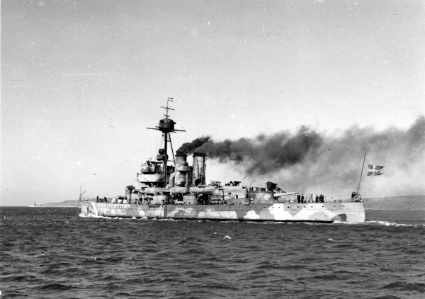 The Swedish coastal defence ship HMS Manligehten during World War II.